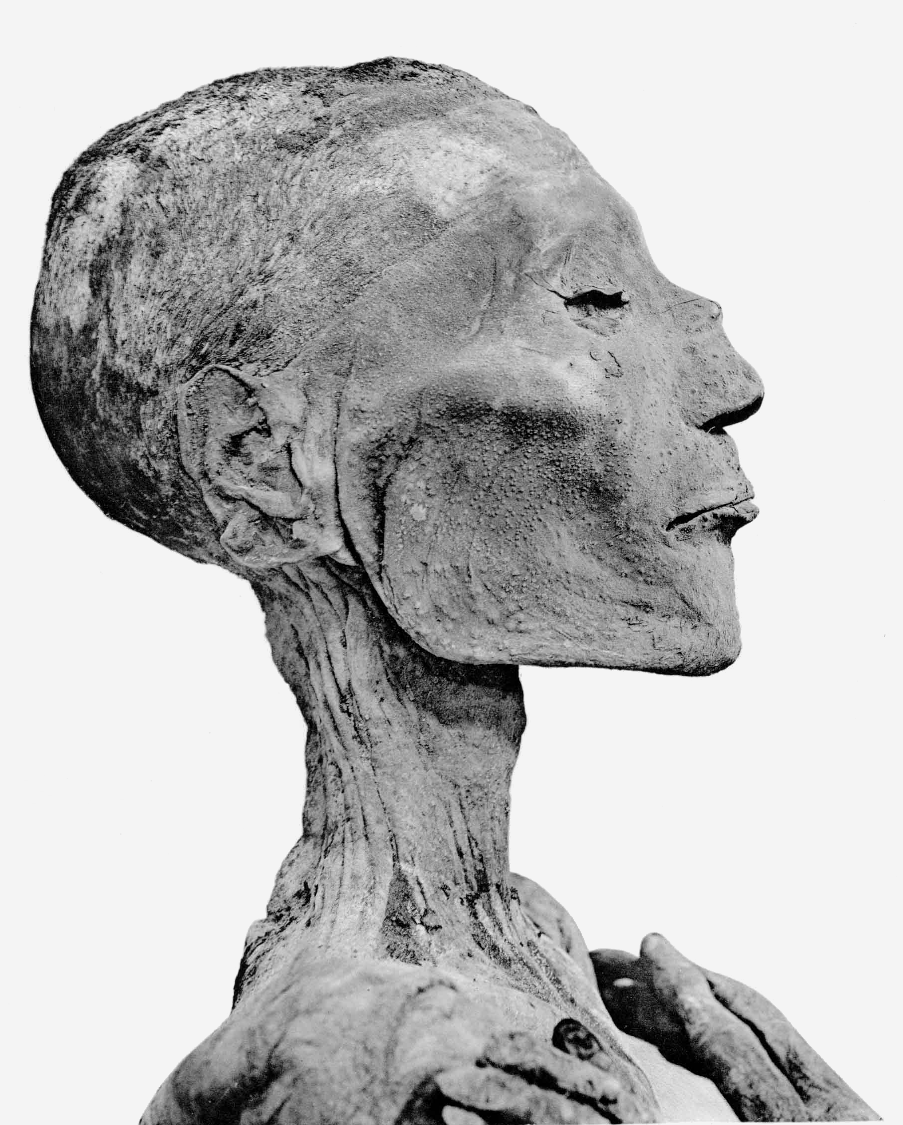 Head of mummy of pharaoh Ramesses V.